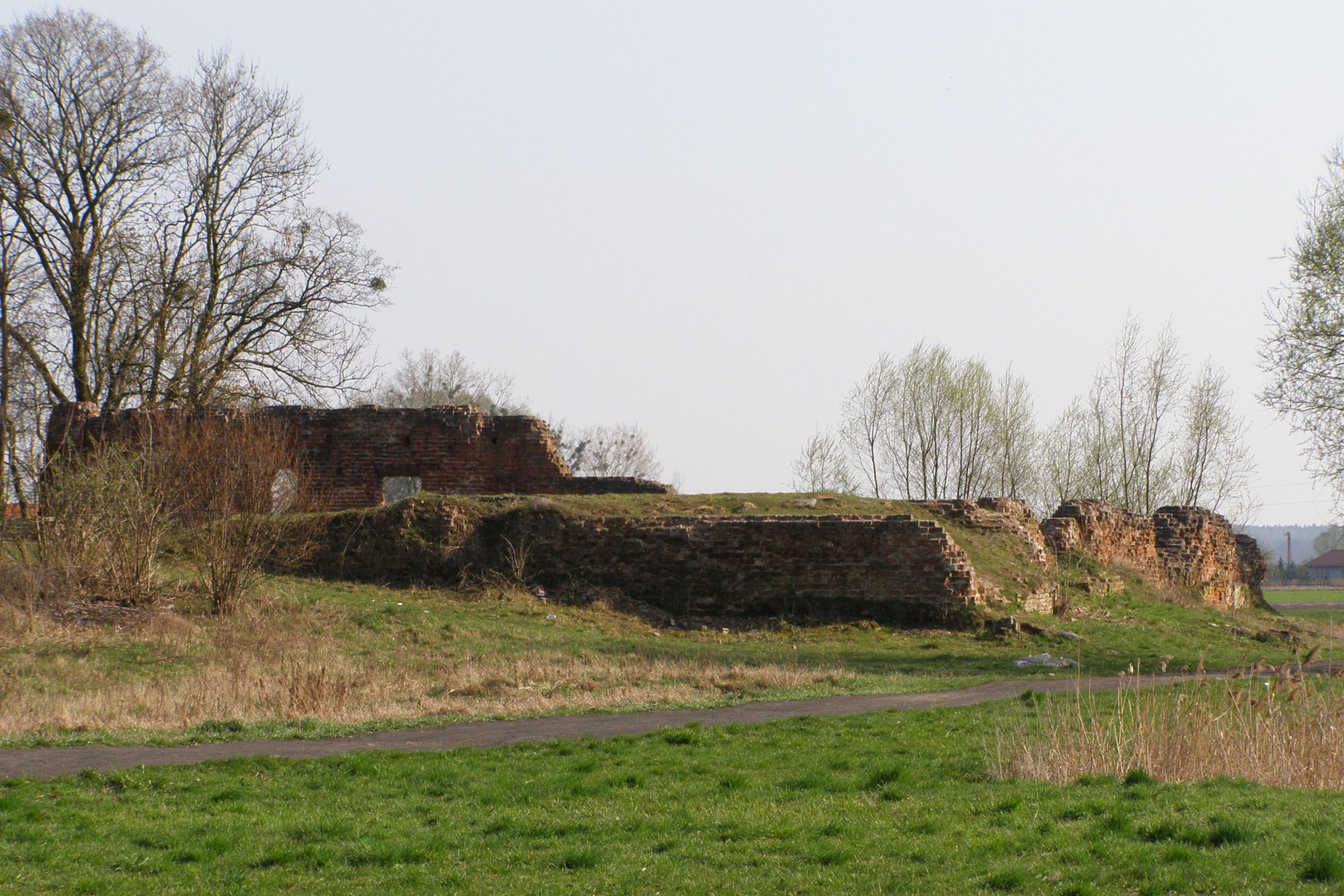 Ruins of the castle in Szubin